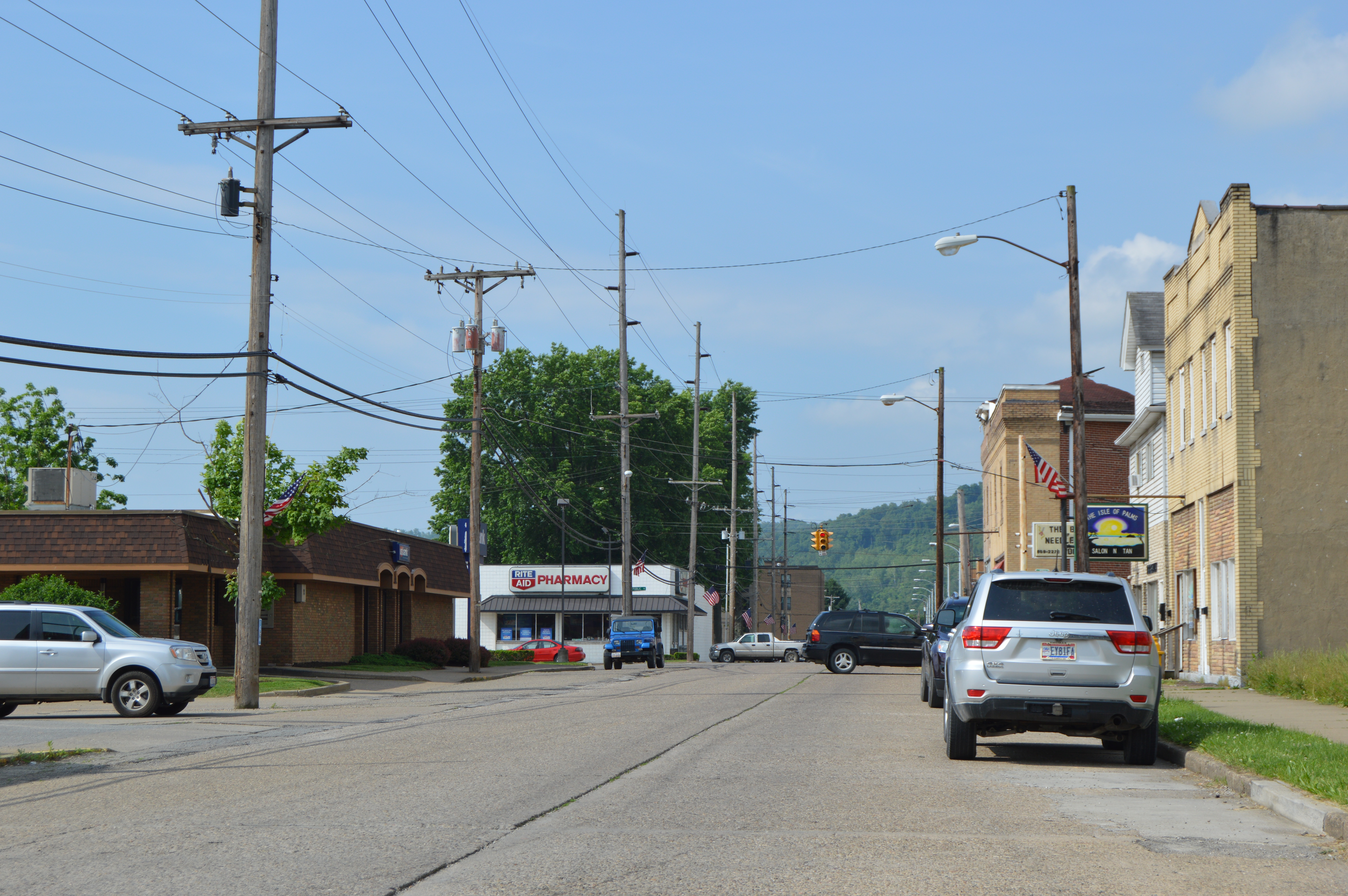 Buildings in the business district of Yorkville, Ohio, United States. Photo looks south on Williams Street on the Jefferson County side of the village; the Public Road intersection is visible in the distance.